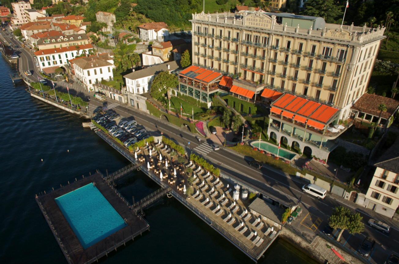 Aerial photo of the Grand Hotel Tremezzo taken by a fly-cam